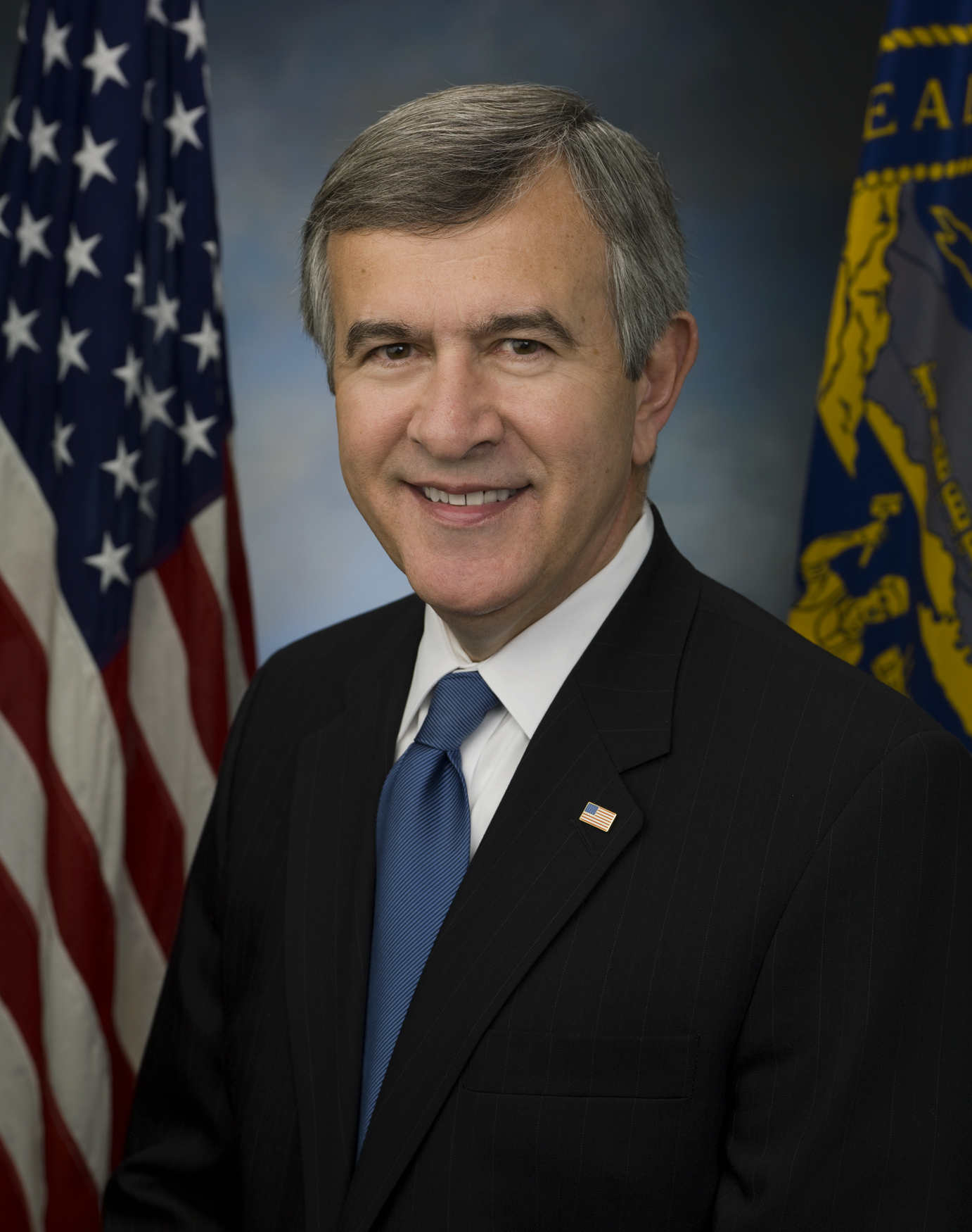 Official Senate photo of United States Senator, fmr. Secretary of Agriculture and fmr. Governor of Nebraska Mike Johanns (R)